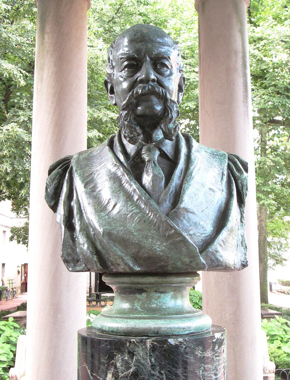 The Van Amringe Memorial, on the Morningside Heights campus of Columbia University in the Van Amringe Quad east of the Butler Library, was built in 1917-18 in the neoclassical style, and honors John Howard Van Amringe, the first dean of Columbia College, as well as a professor of mathematics. The Indiana limestone structure has 12 columns and a dome lined with blue tiles. It is 25 feel tall and 23 feet in diameter. (Source: Columbia Alumni News (July 1918))